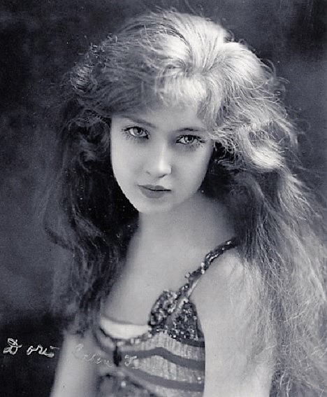 Doris Eaton Travis